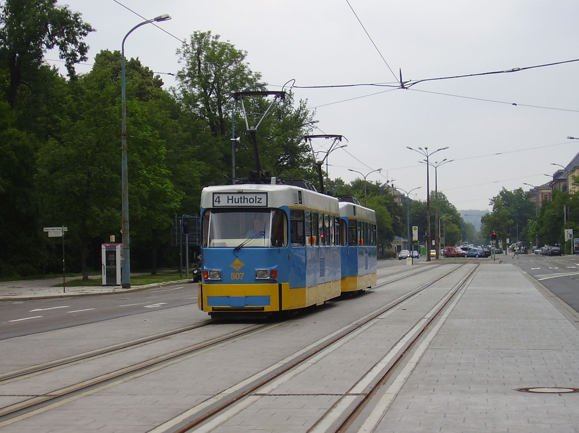 Tramway Train Type Tatra T3D-M in Chemnitz, Straße der Nationen near stop "Schillerplatz"